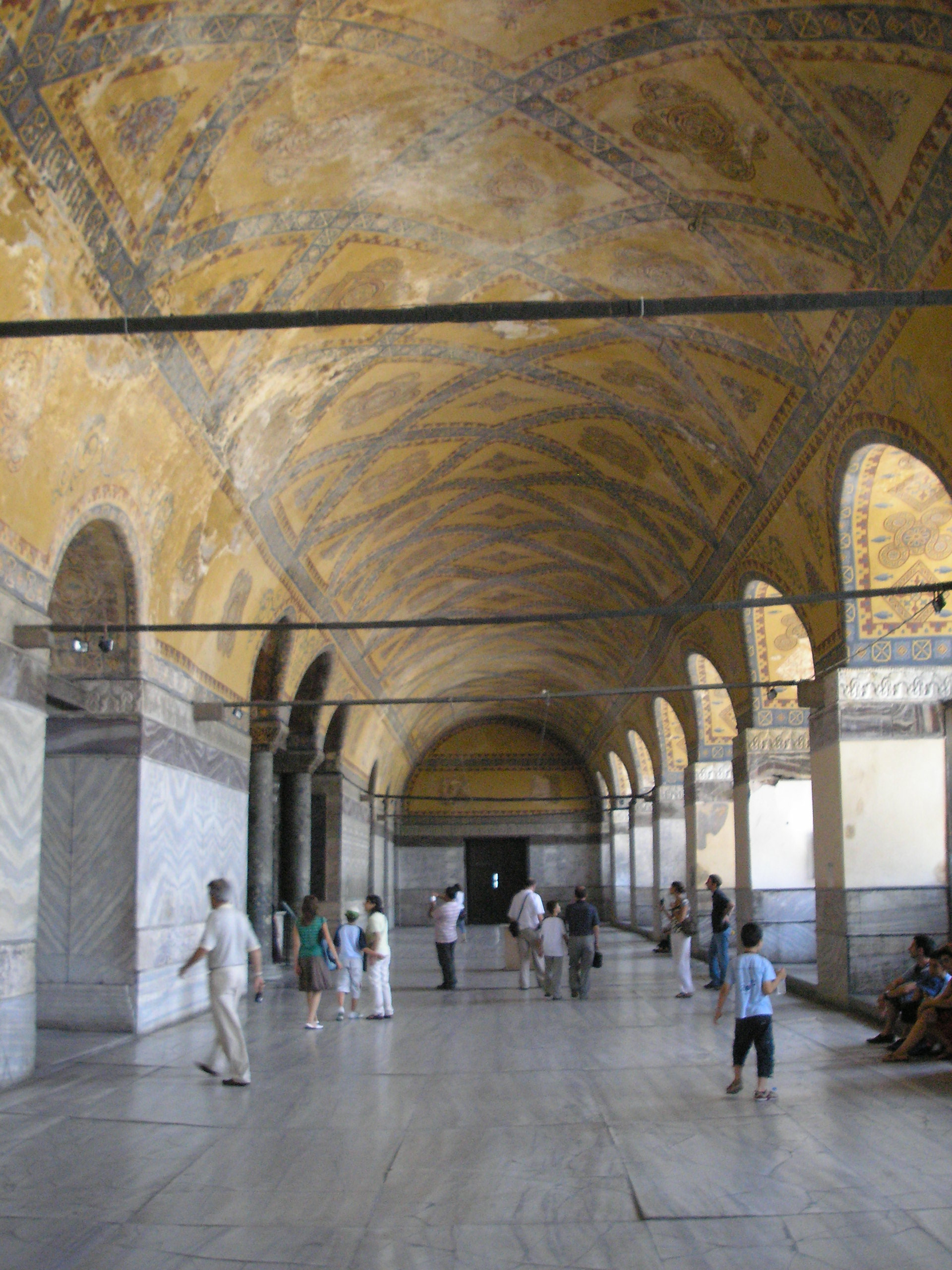 The upper gallery, or enclosure, of the Hagia Sophia. Many mosaics are located on this floor.